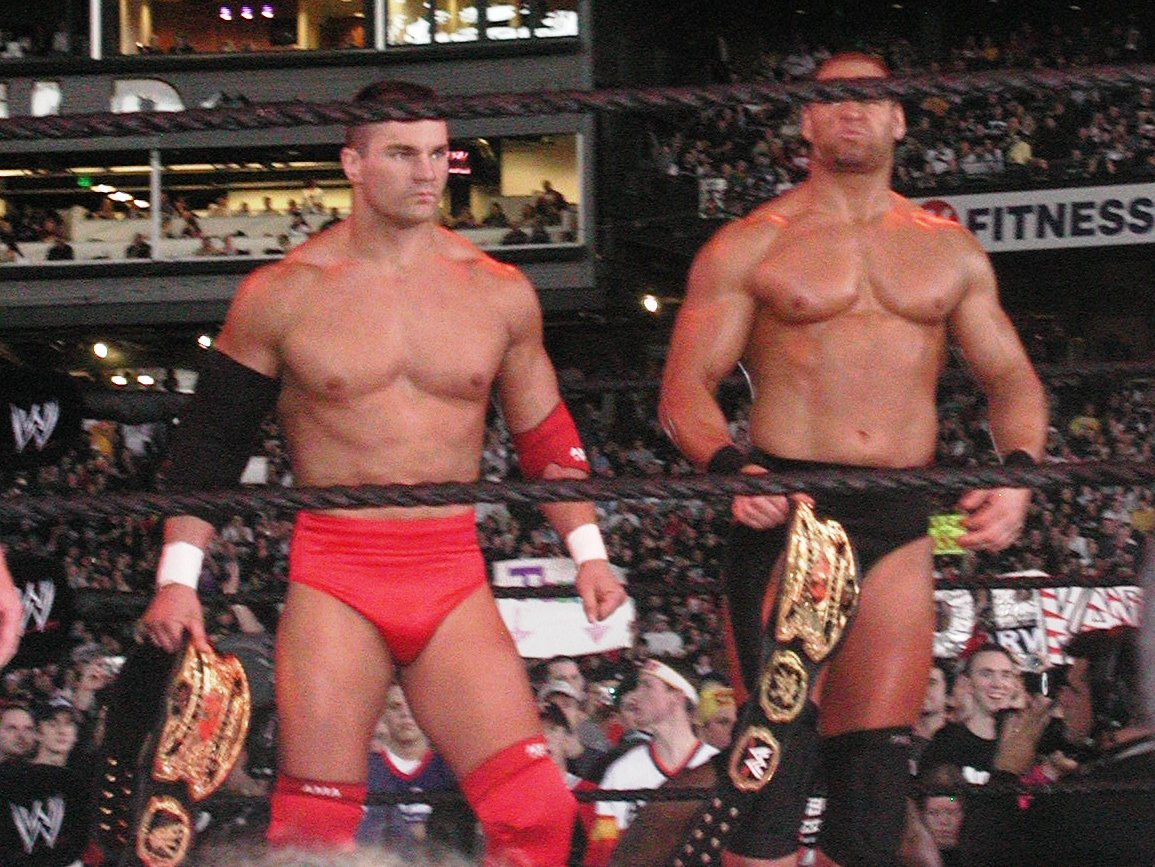 Chief Morley and Lance Storm as the World Tag Team Champions (WWE). WrestleMania XIX, Safeco Field, Seattle, WA, on March 30, 2003. Photo taken my me; cropped and brightened with Office Picture Manager.